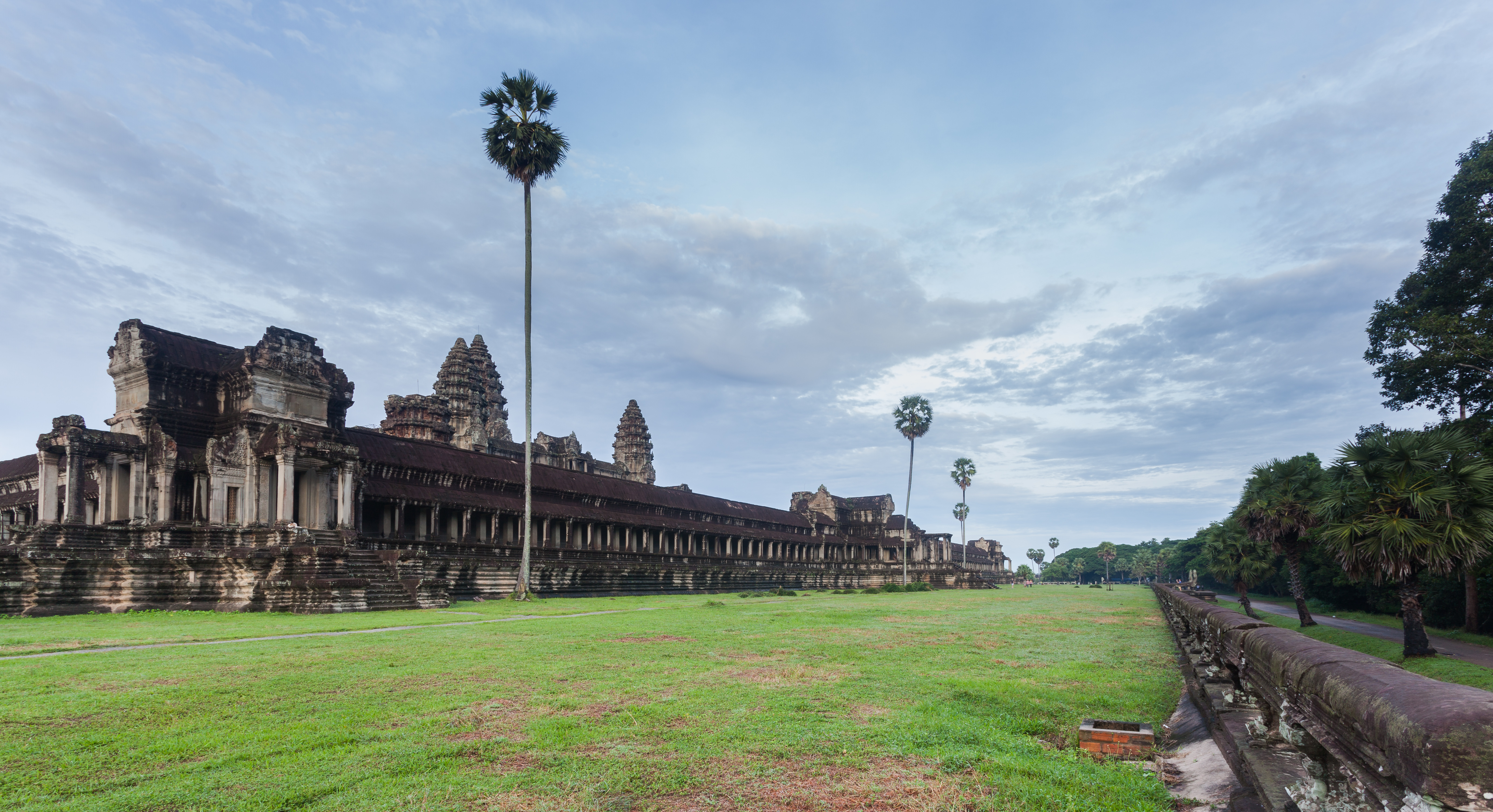 Angkor Wat, Cambodia